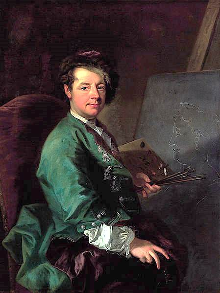 Self-portrait (clearer version)